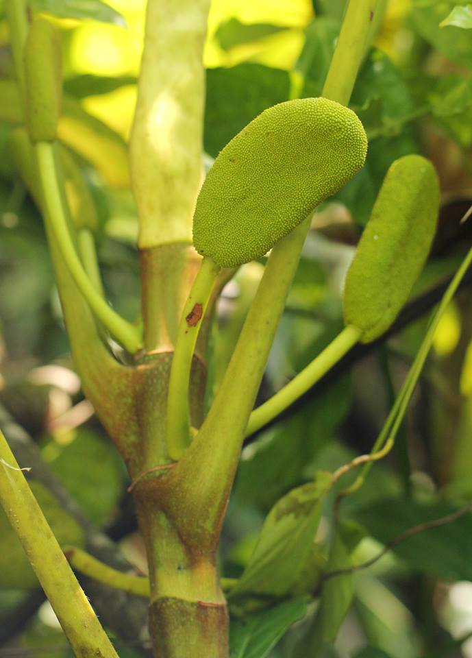 Musanga cecropioides R.Br. ex Tedlie - female flower